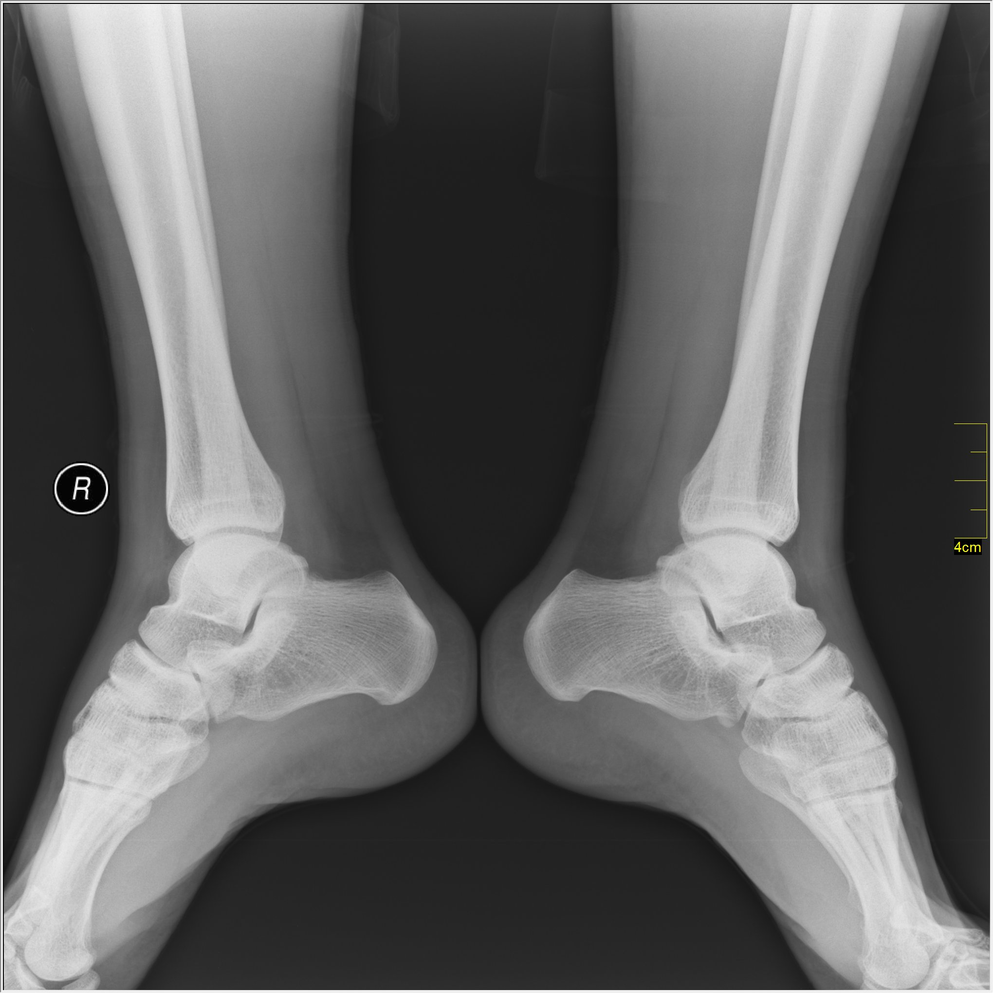 Medical X-rays. Image may not be to scale